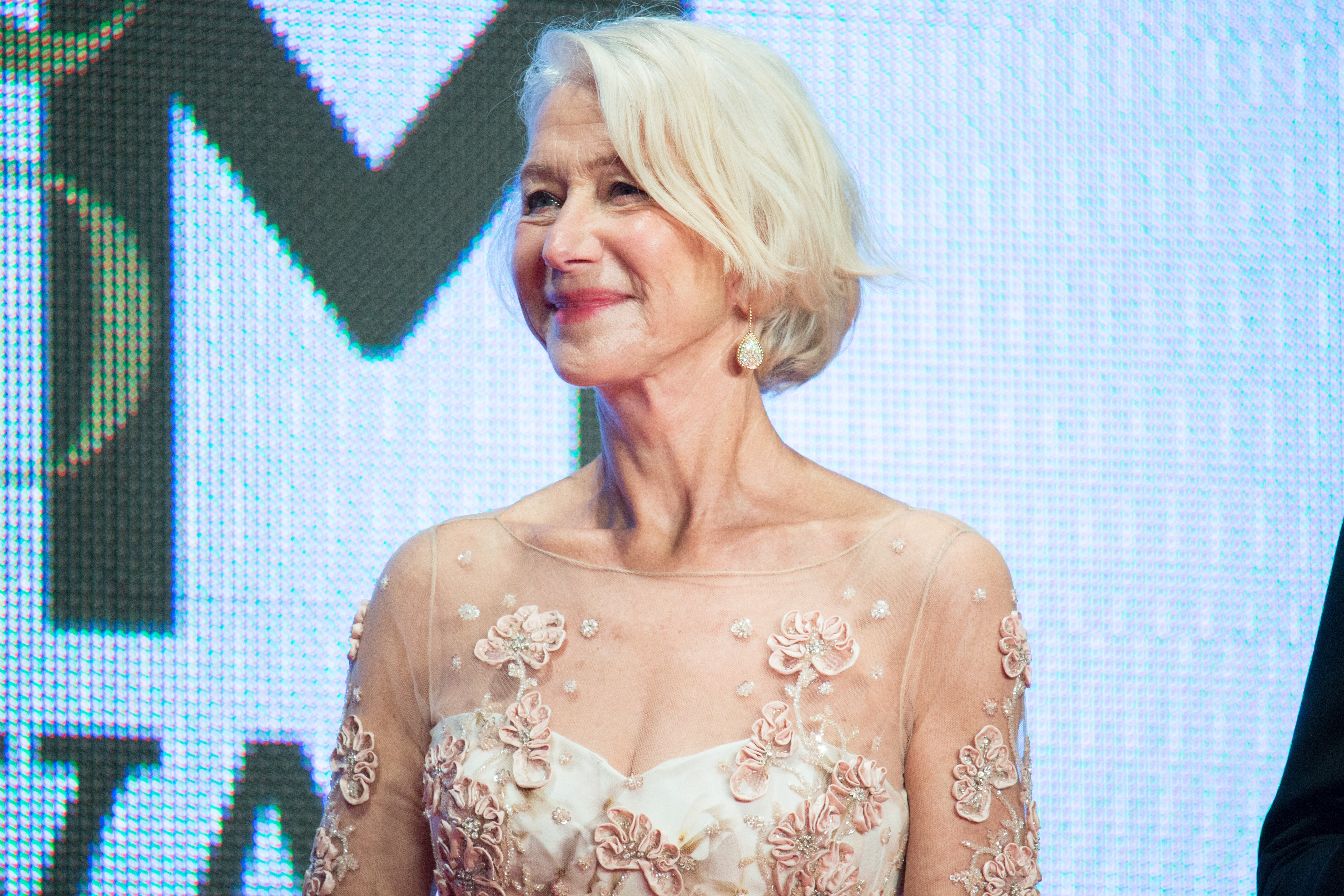 Helen Mirren "Woman In Gold" at Opening Ceremony of the 28th Tokyo International Film Festival